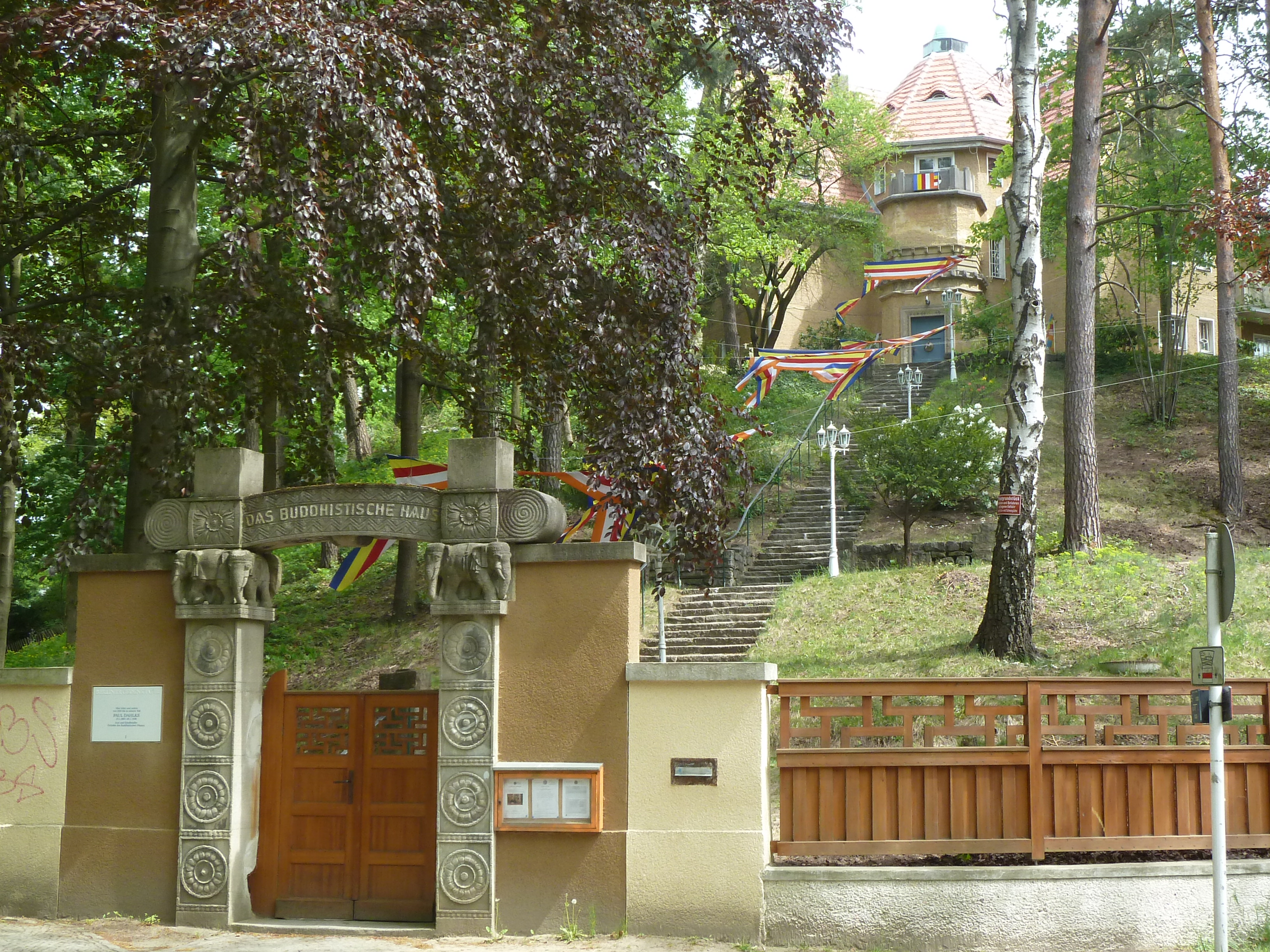 The Elephant Gate leads to Das Buddhistische Haus, Berlin Frohnau; Vesak festival flags are present